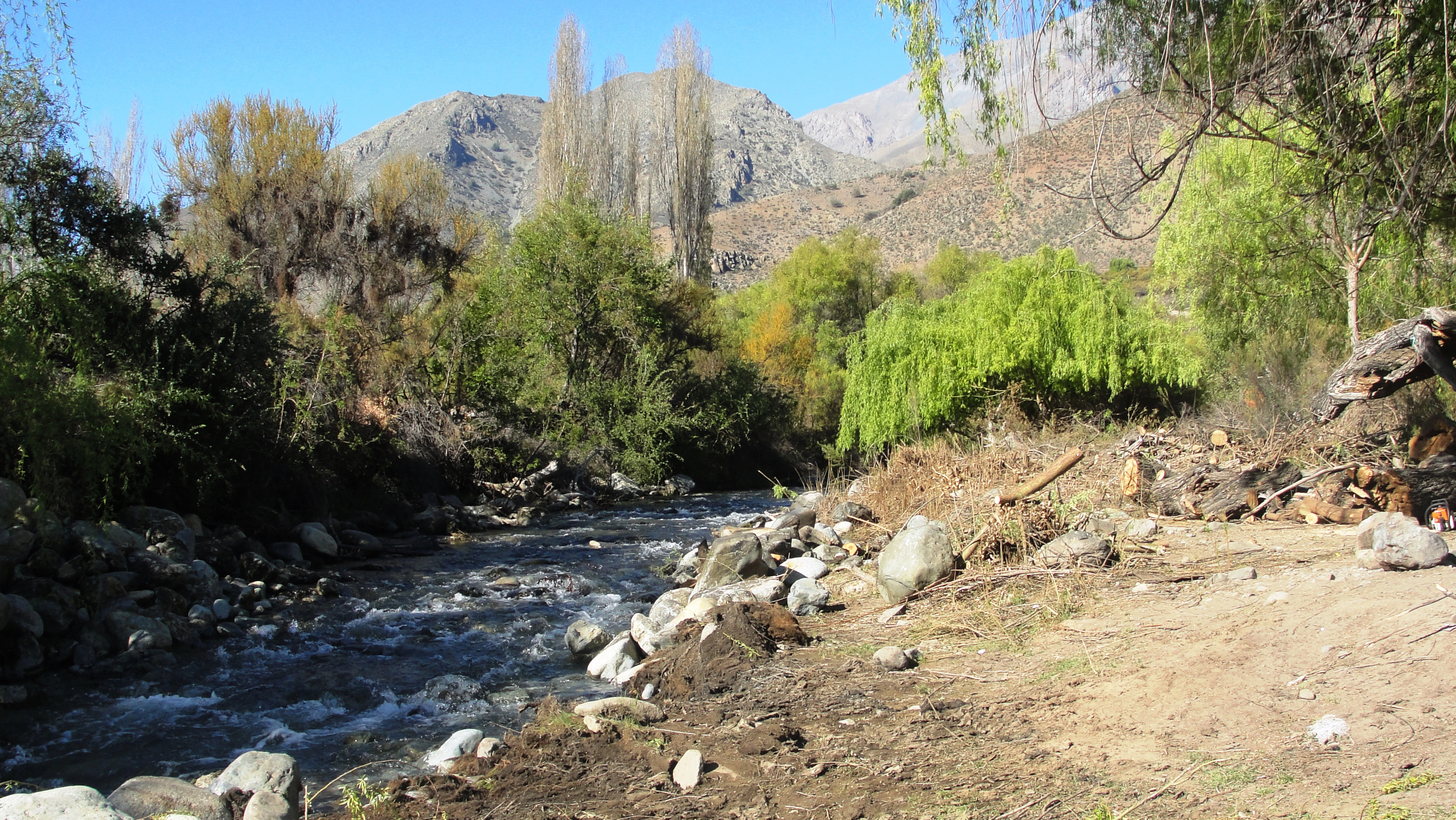 RIO ILLAPEL IV REGION CHILE